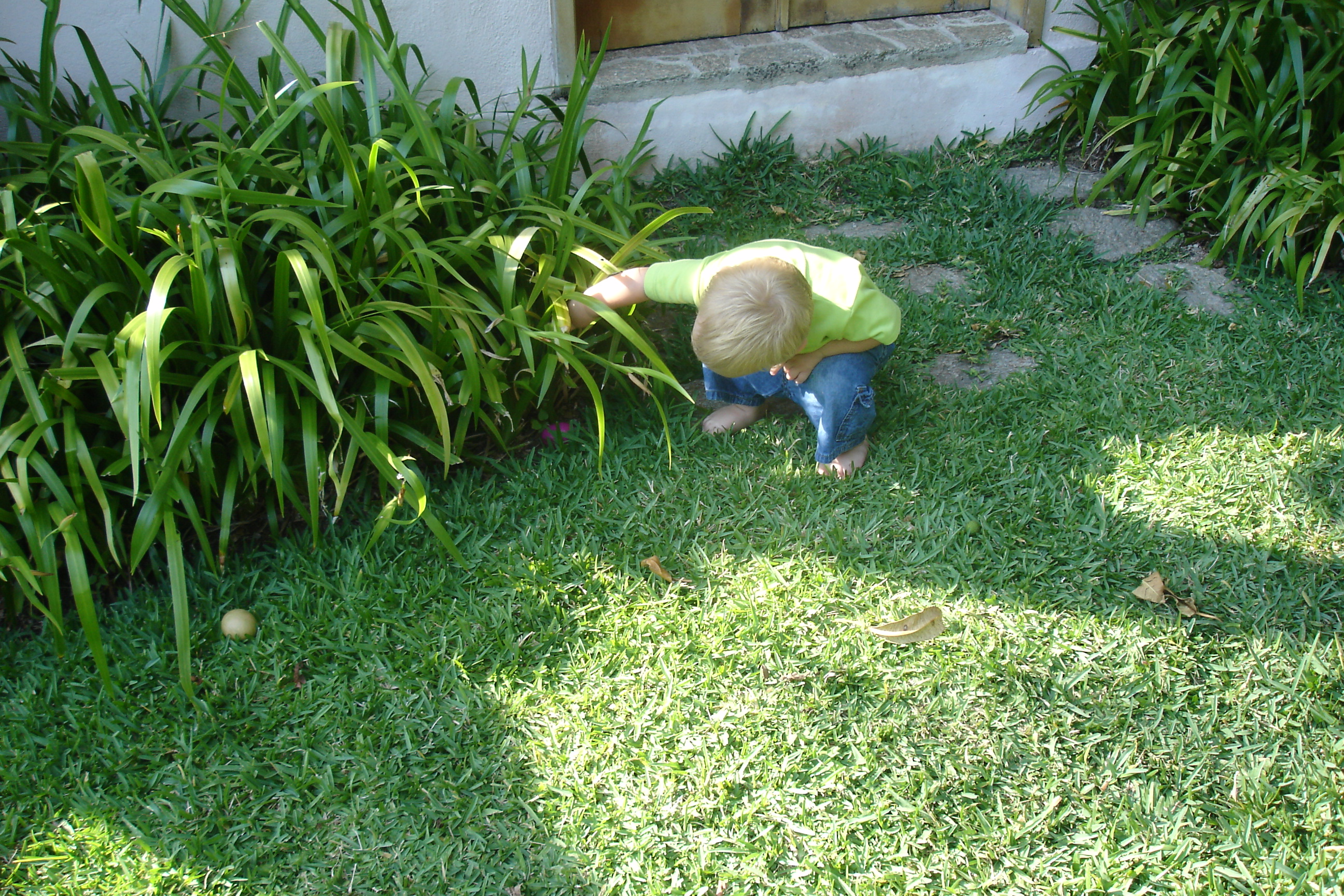 Child hunting for easter eggs in the back yard of his house.